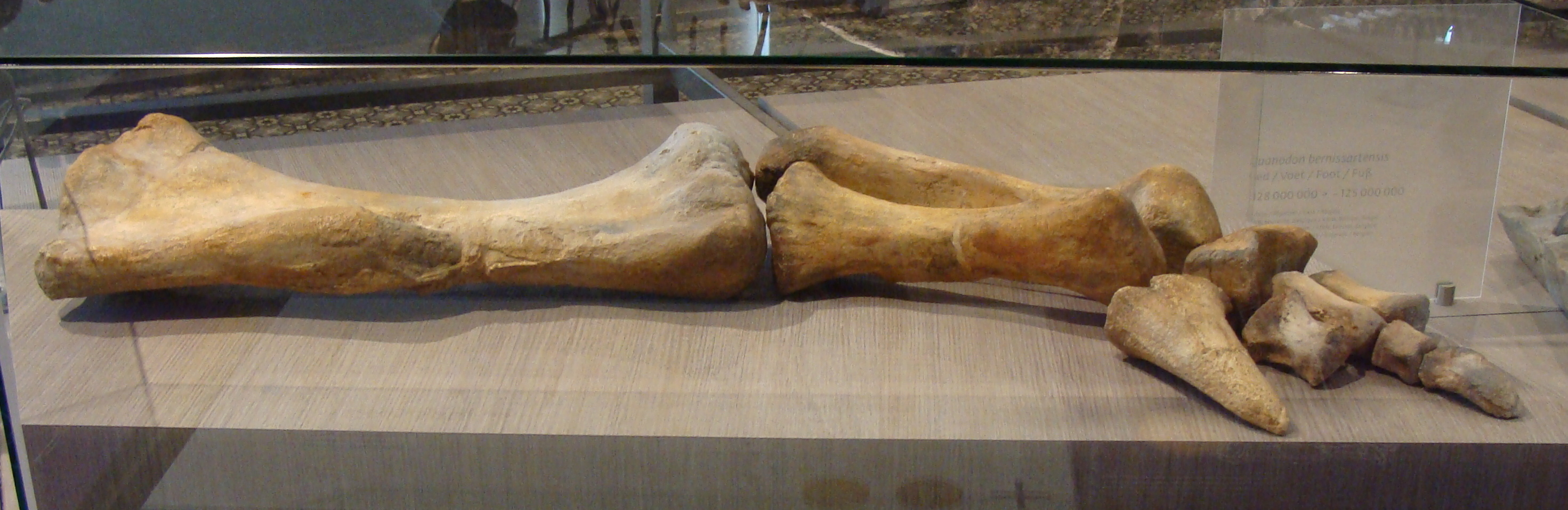 Lurdusaurus forelimb in the Royal Belgian Institute of Natural Sciences.